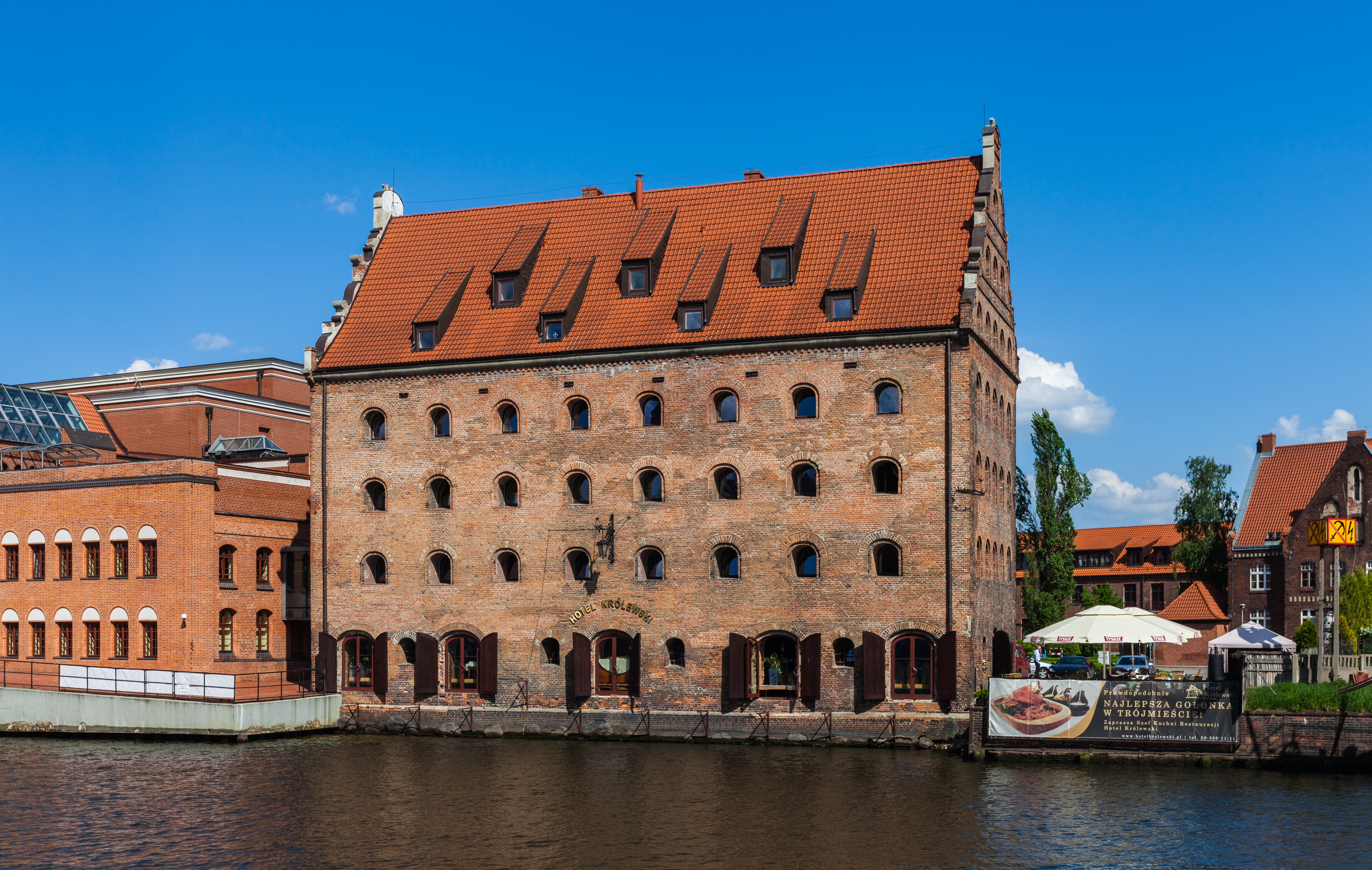 Gdansk Krolewski Hotel, Gdansk, Poland